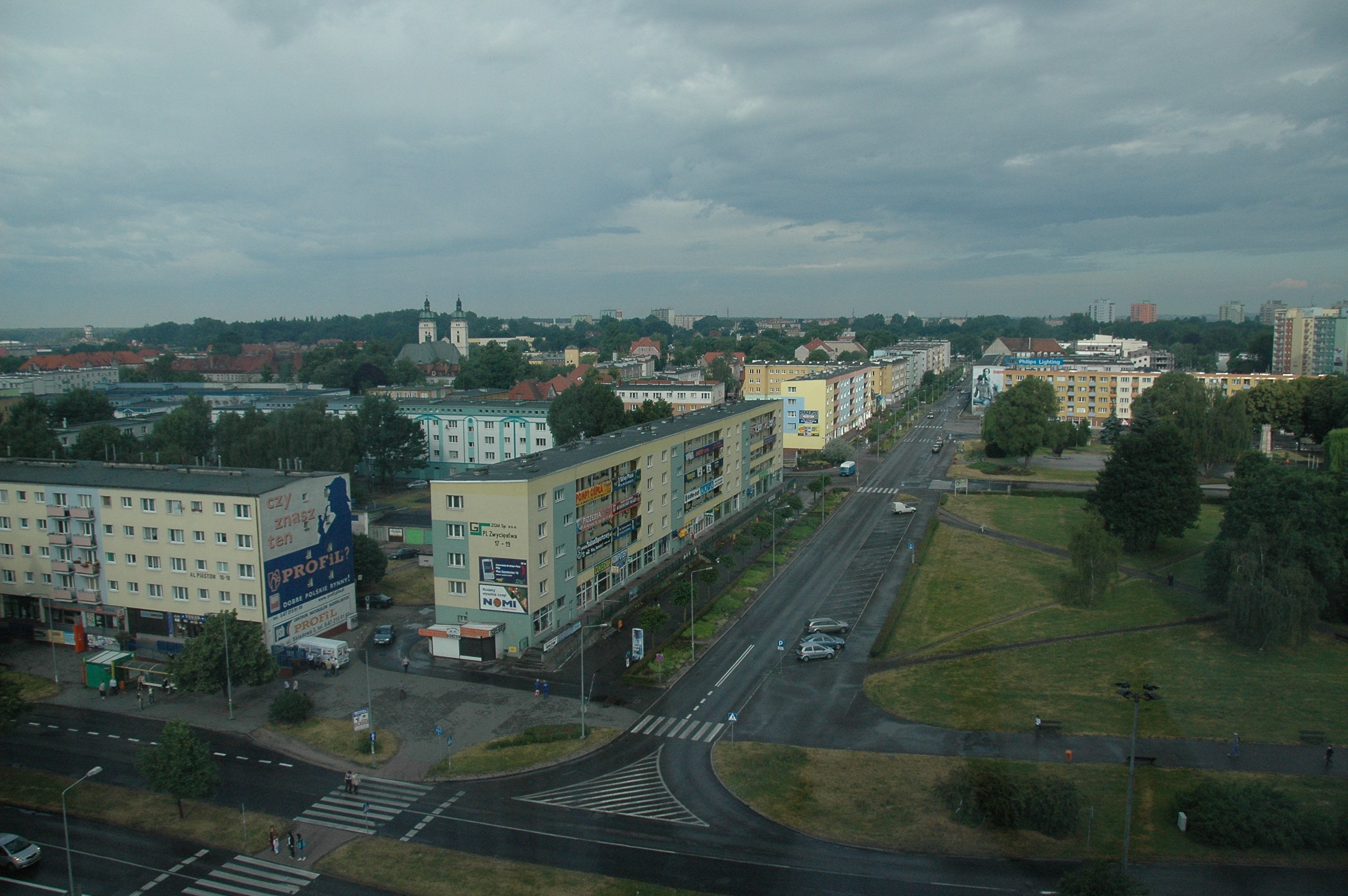 Landscape of Piła, Poland.